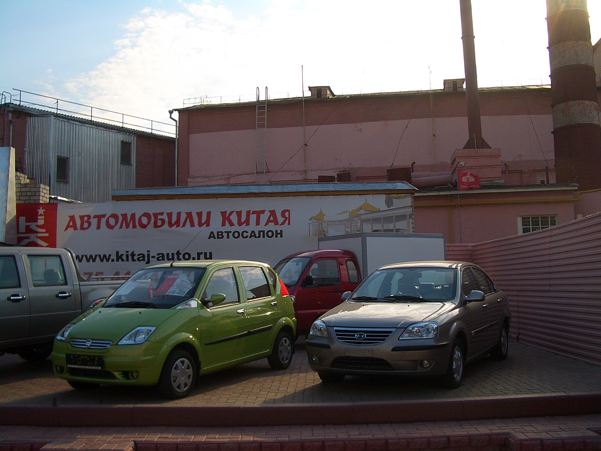 China-made Hafei cars on a car dealer's lot in Nizhny Novgorod's Kanavinsky District